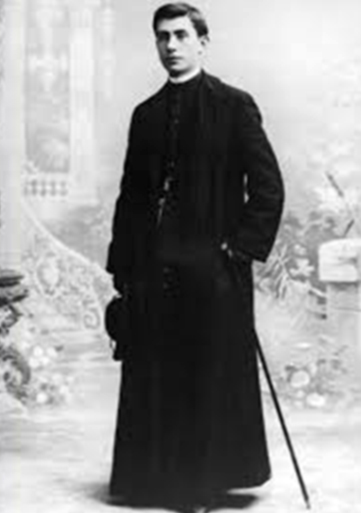 Mateo Cravley-Boevey